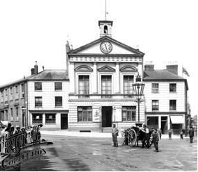 photo from 1897 of Luton Town hall